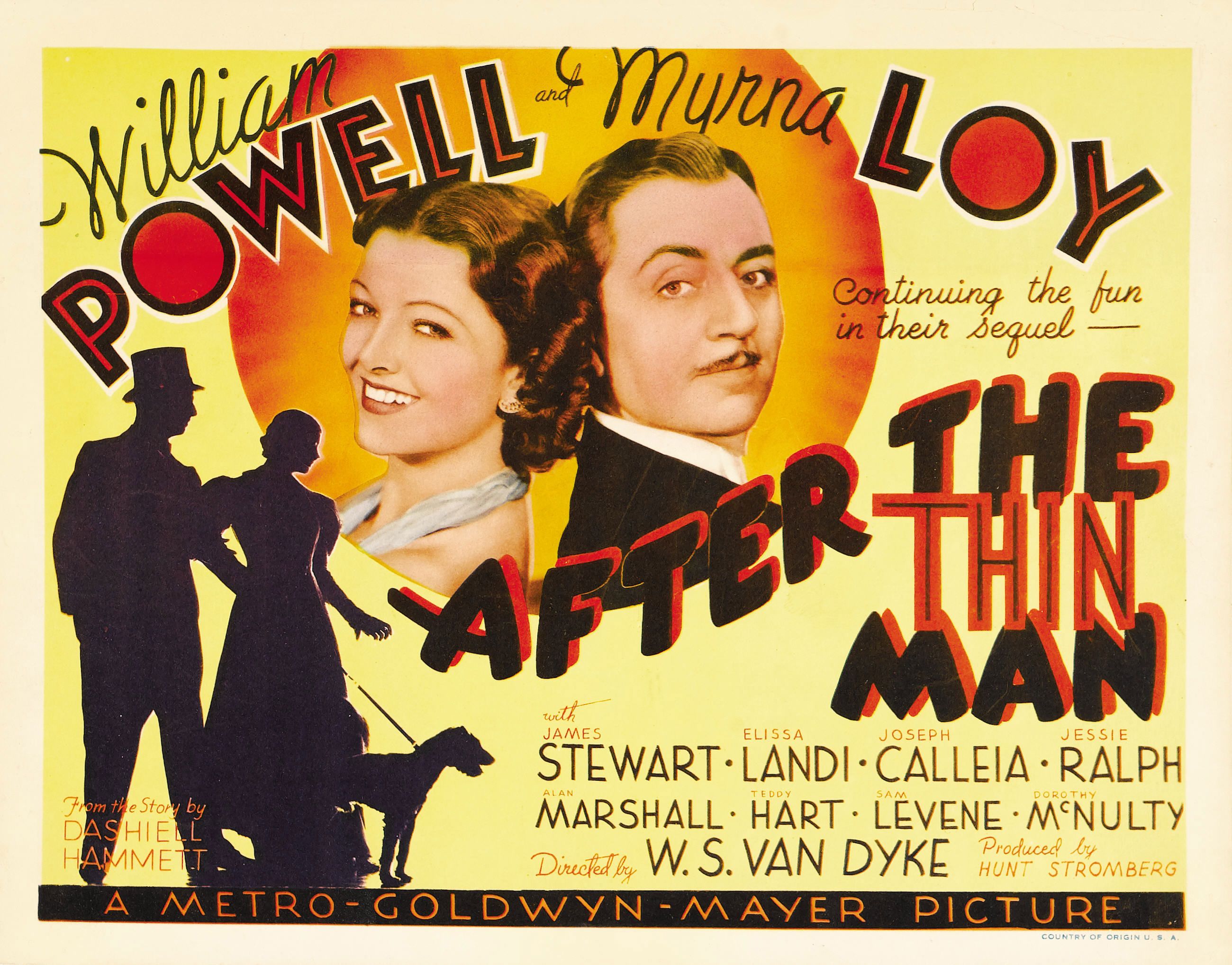 Title lobby card for the 1936 film After the Thin Man